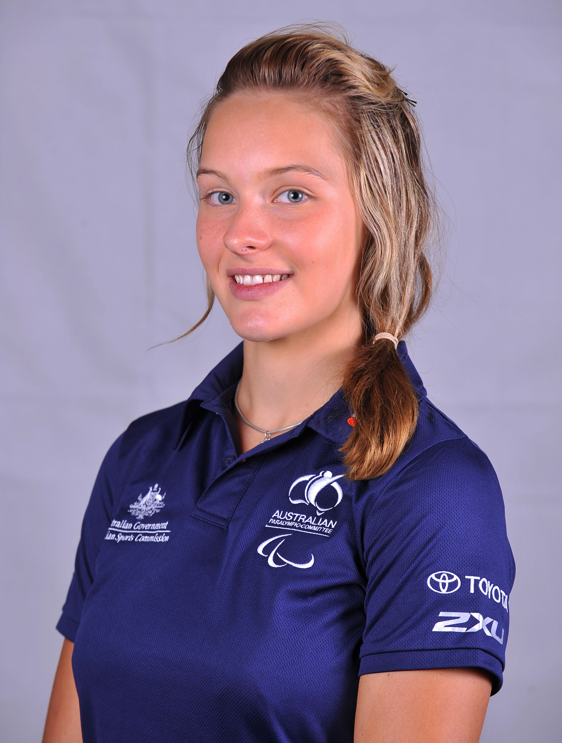 Portrait of Australian athlete Stephanie Schweitzer, 2012 Australian Paralympic (shadow) Team athlete